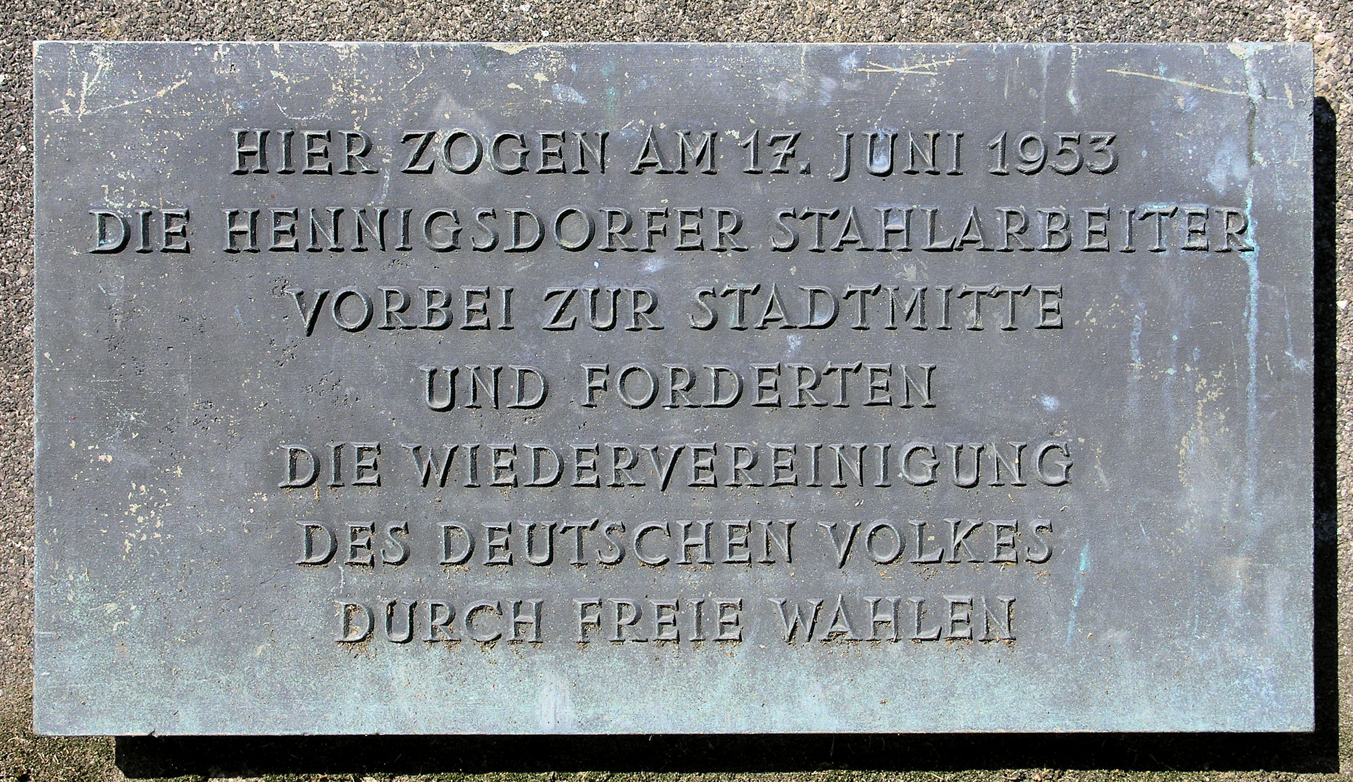 Memorial plaque, 17. Juni 1953, Berliner Straße 71, Berlin-Tegel, Germany Koordinate:52°35′1″N 13°17′22″E / 52.58361°N 13.28944°E